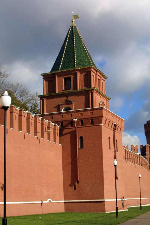 Moscow, the Kremlin. Petrovskaya Tower.